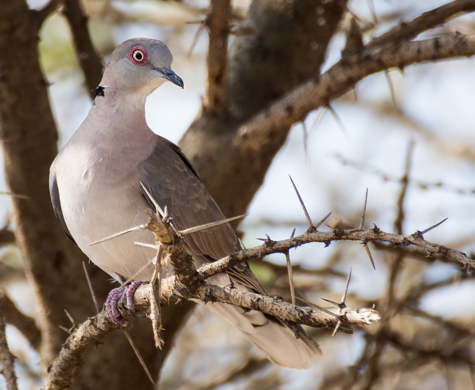 Mourning collared dove in Ethiopia